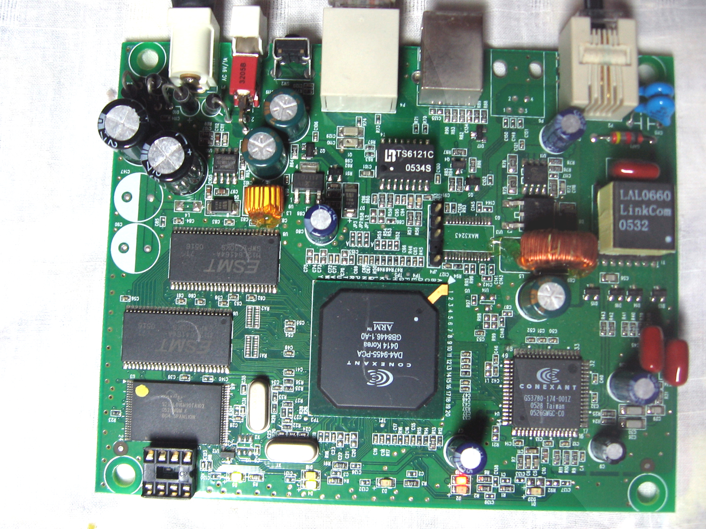 a DSL Modem in working condition.